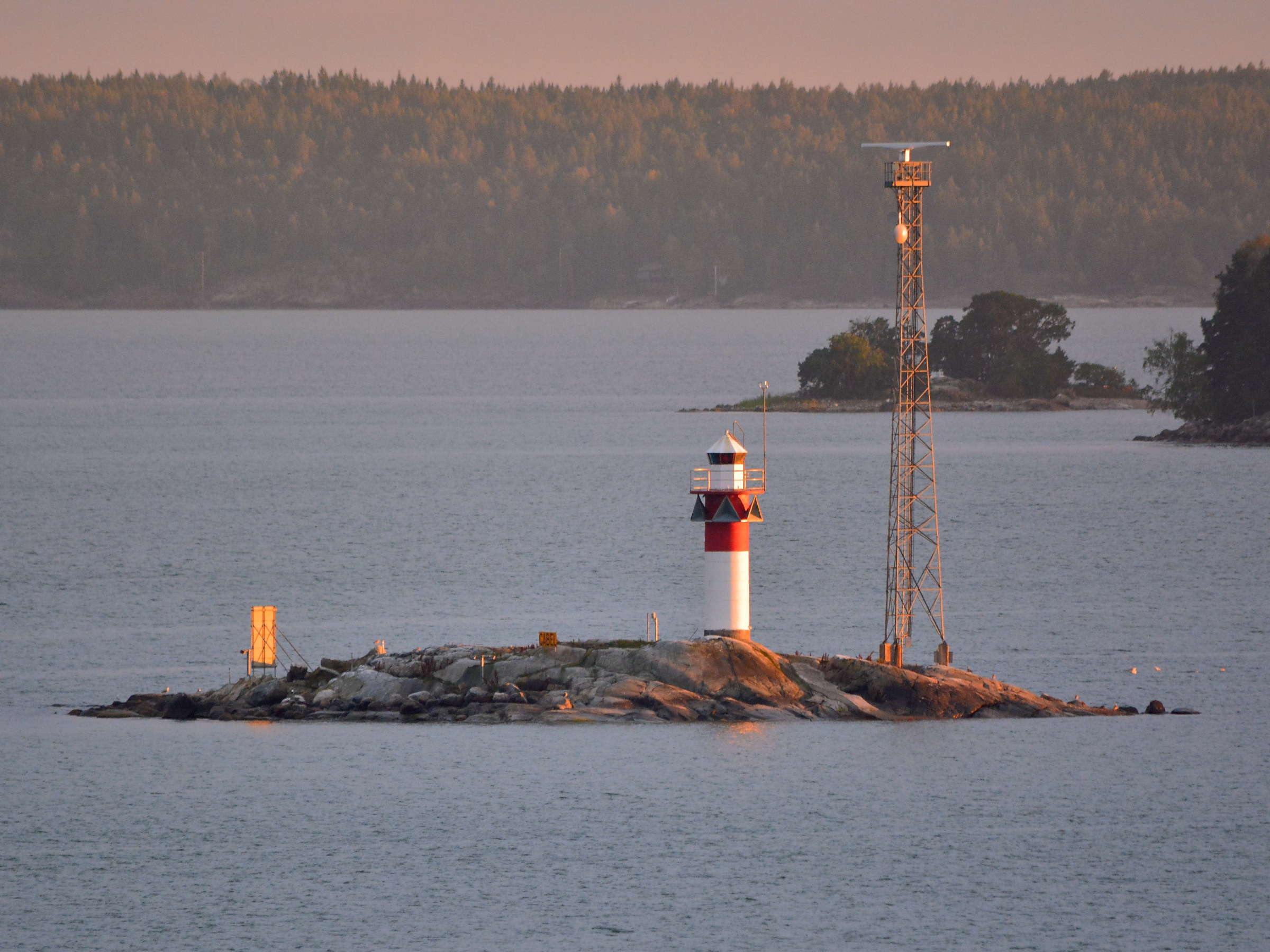 The lighthouse Rajakari on the isle with the same name in Airisto, Finland.